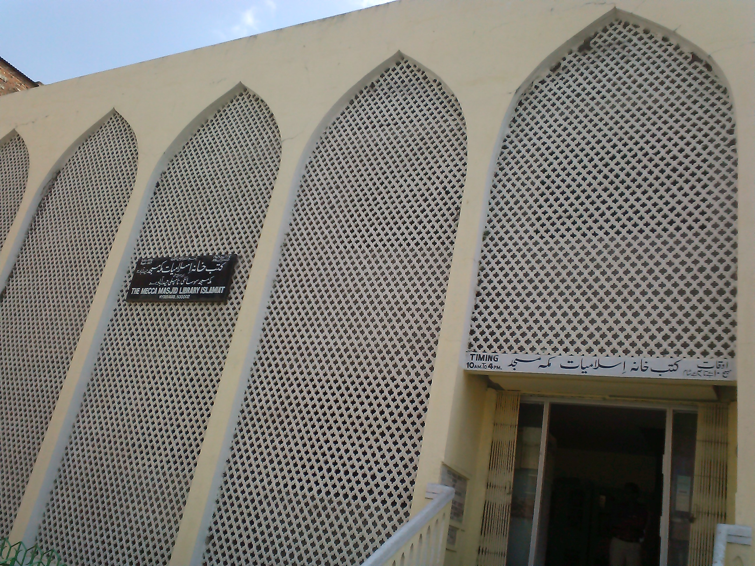 Library Building